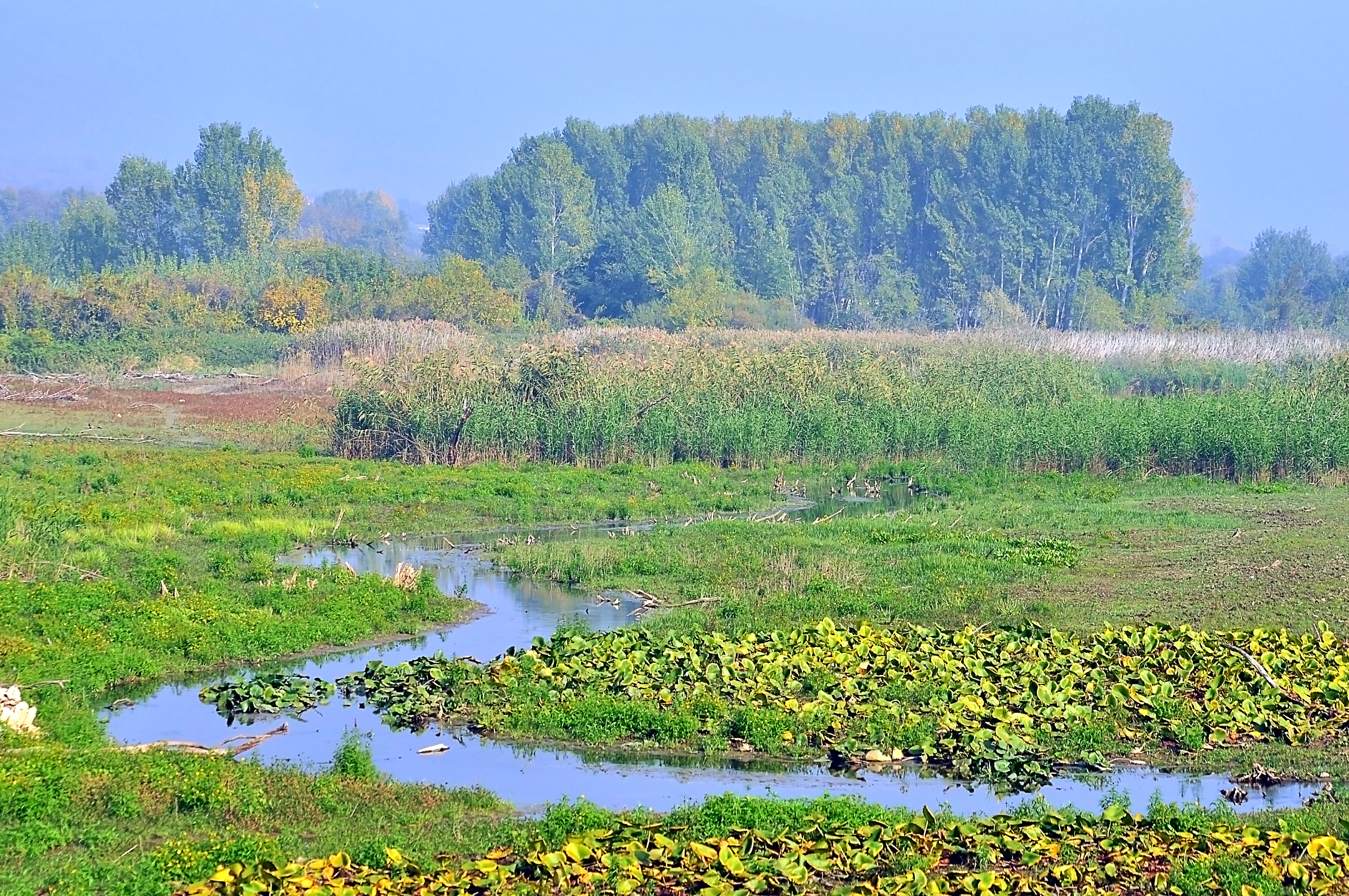 This is a photography of Natura 2000 protected area with ID GR1260001